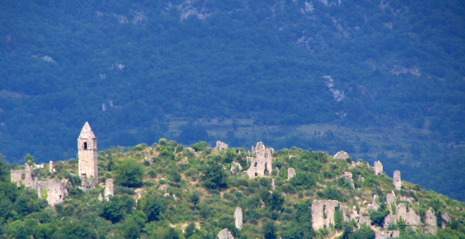 Old Morino